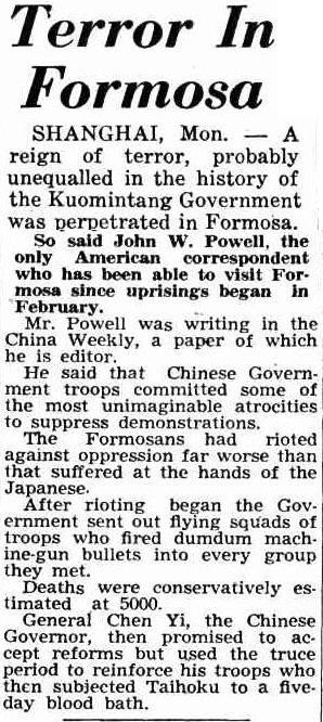 'Terror In Formosa' (a news article about the 228 incident; The Daily News. Perth, WA)